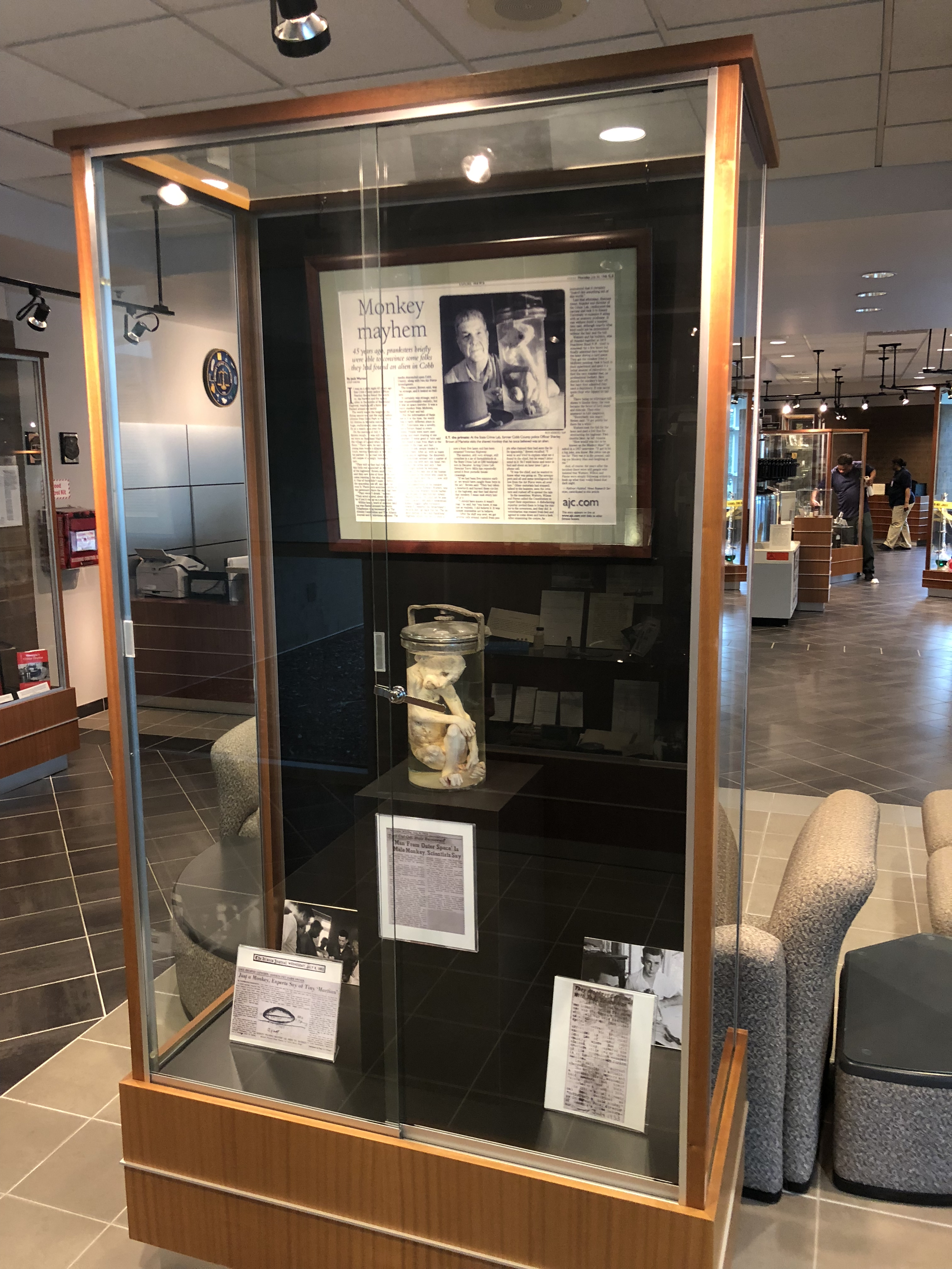 The Martian Monkey hoax of 1953 was debunked in part by the forensic work of the Georgia Bureau of Investigation. In the lobby of the GBI's Herman Jones Memorial Forensic Science Complex building, there is a small museum devoted to forensic investigation, and the monkey is one of the displays.